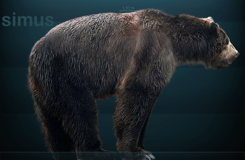 Recreation of Arctodus simus